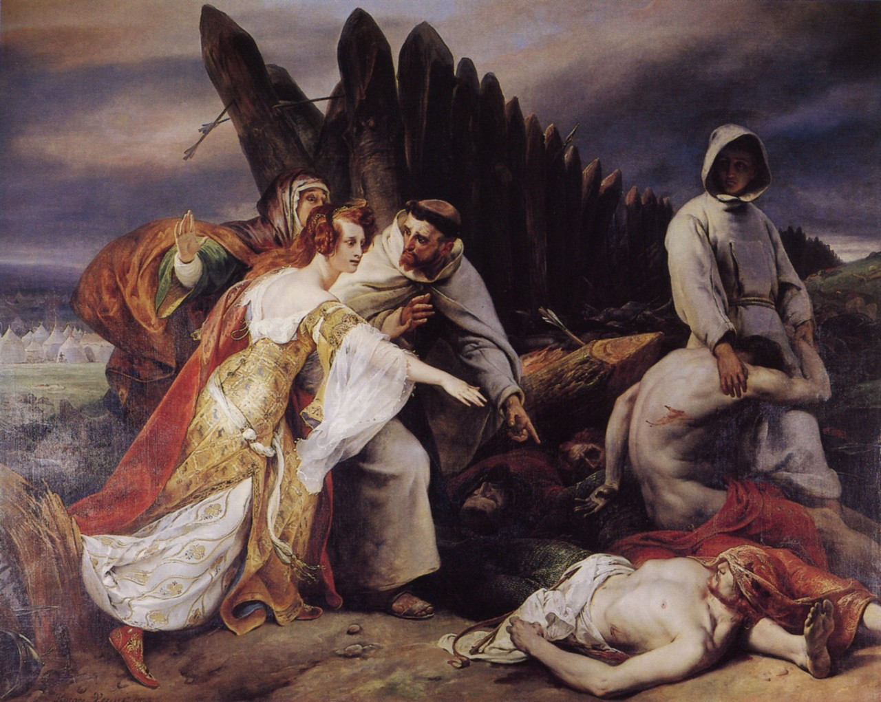 Edith Swanneck discovering King Harold's corpse on the battle field of Hastings